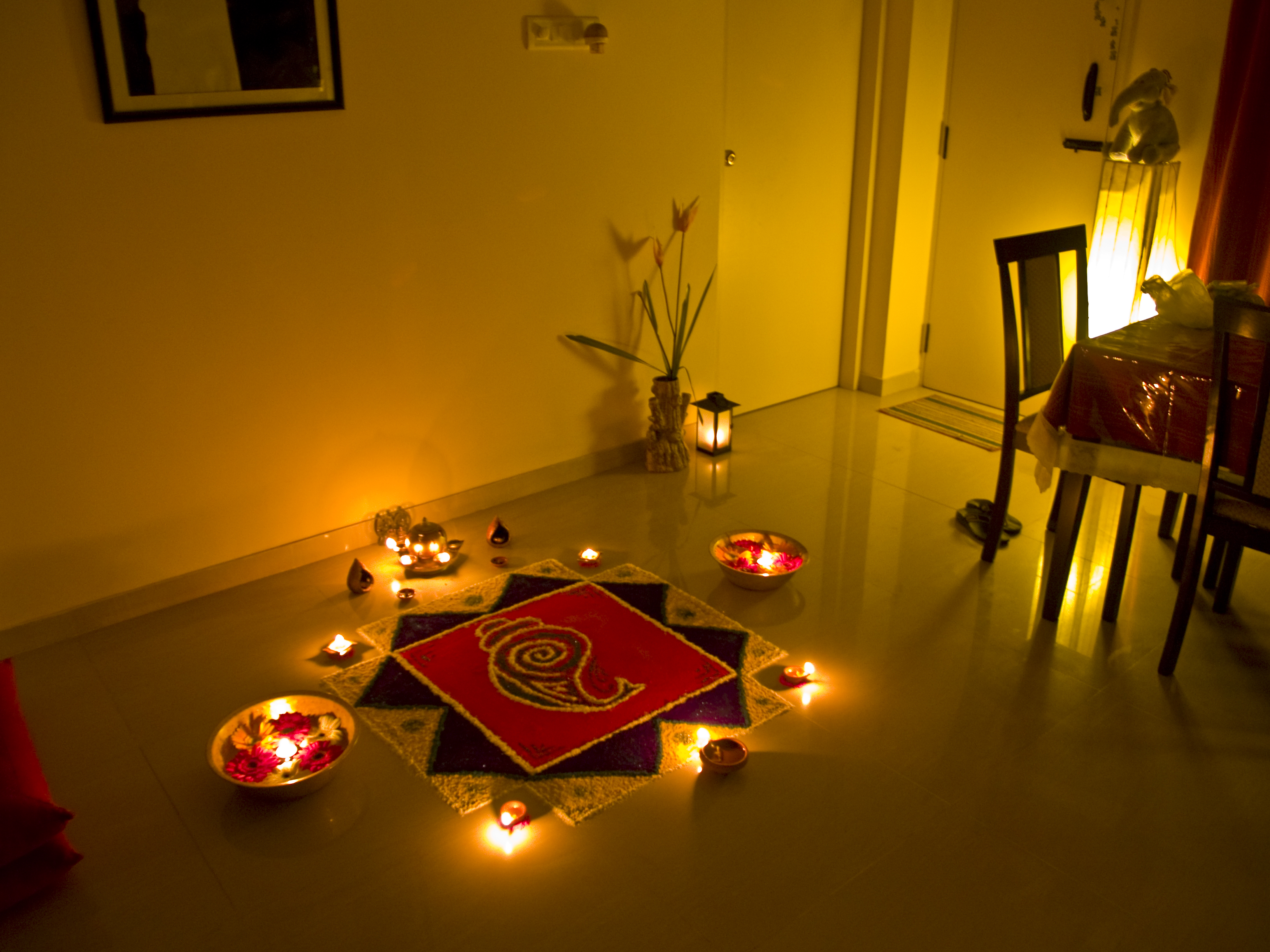 Rangoli with lights